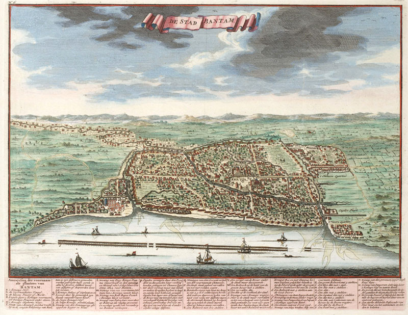 Banten City, year 1724